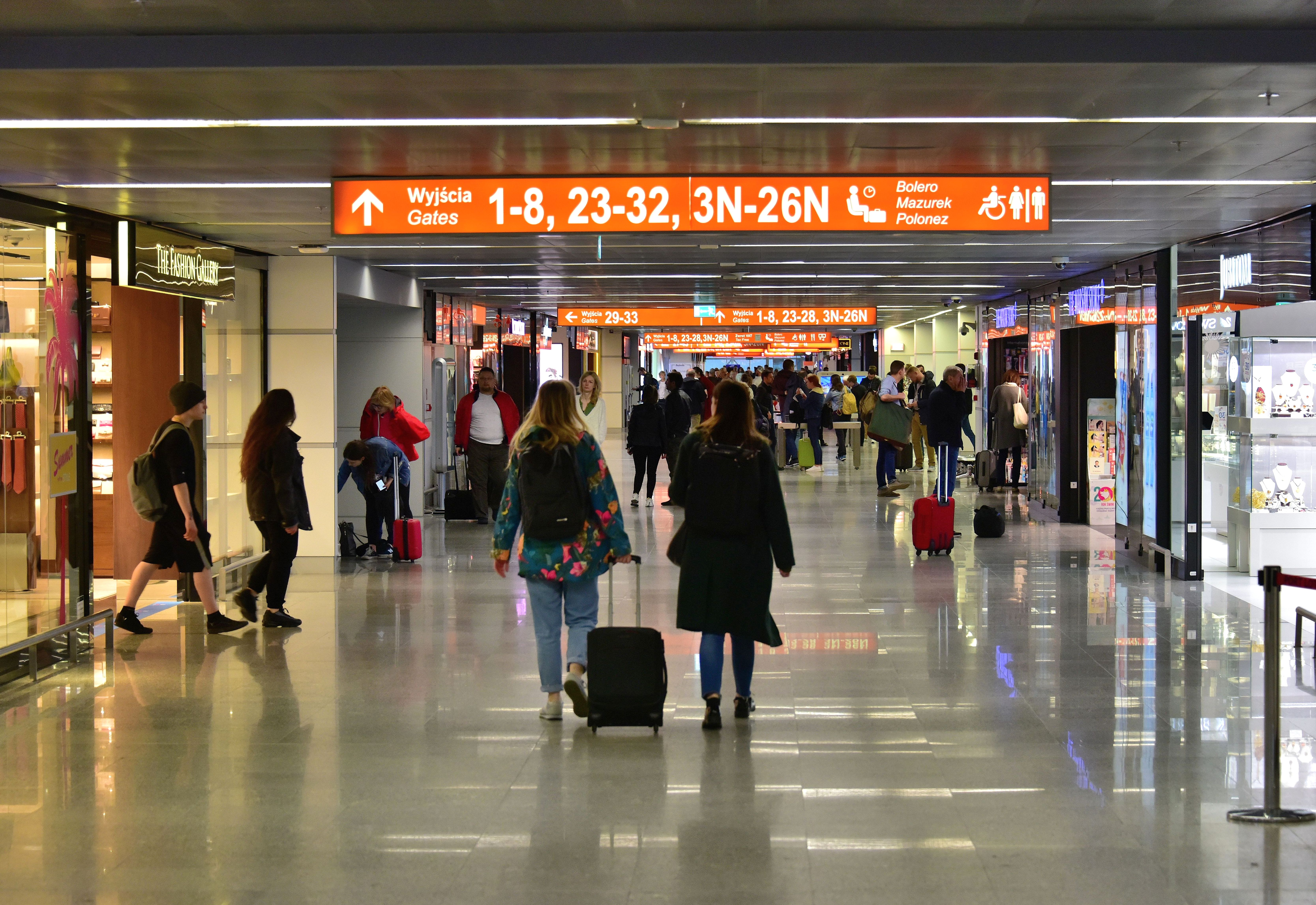 Chopin Airport in Warsaw